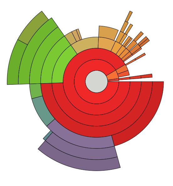 Screenshot of for illustration of Multi-level Pie Chart